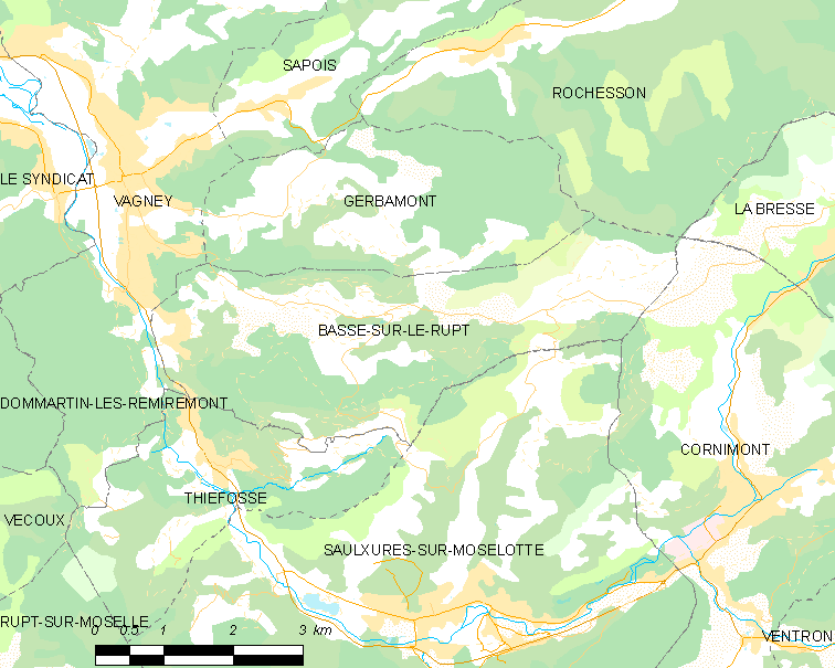 Map of French municipality Basse-sur-le-Rupt